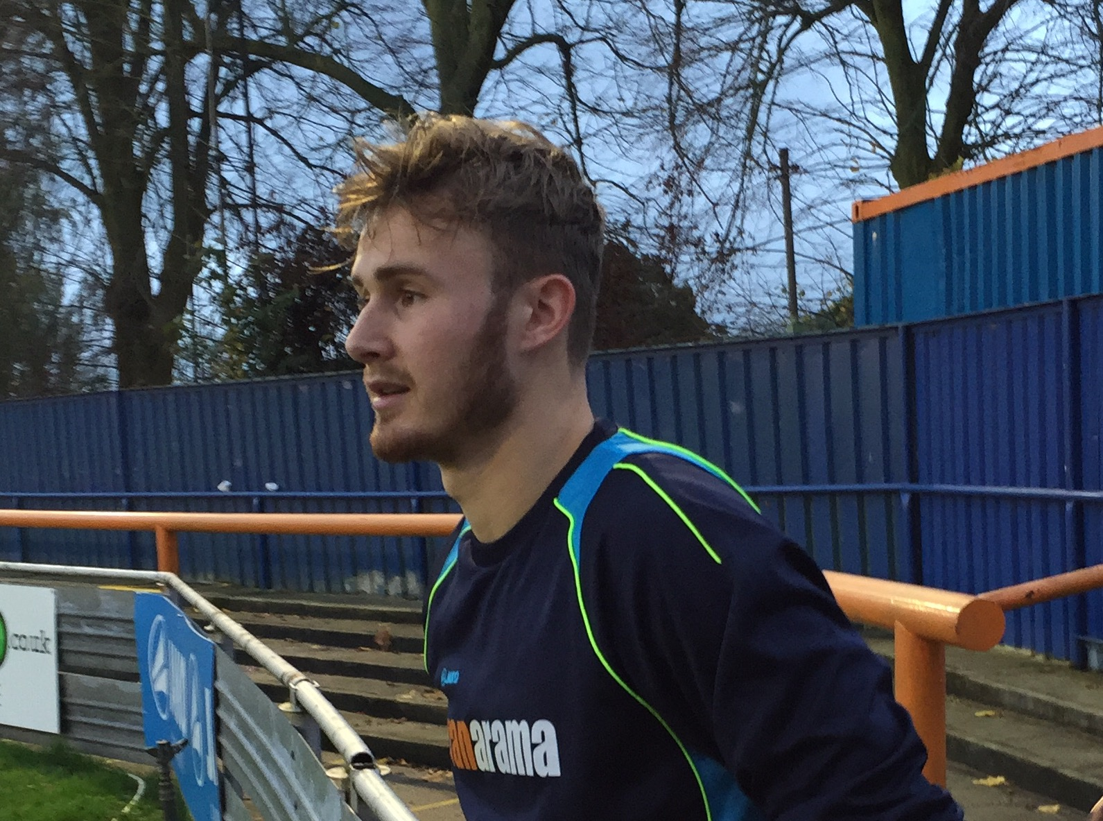 Will Norris with Braintree in 2015